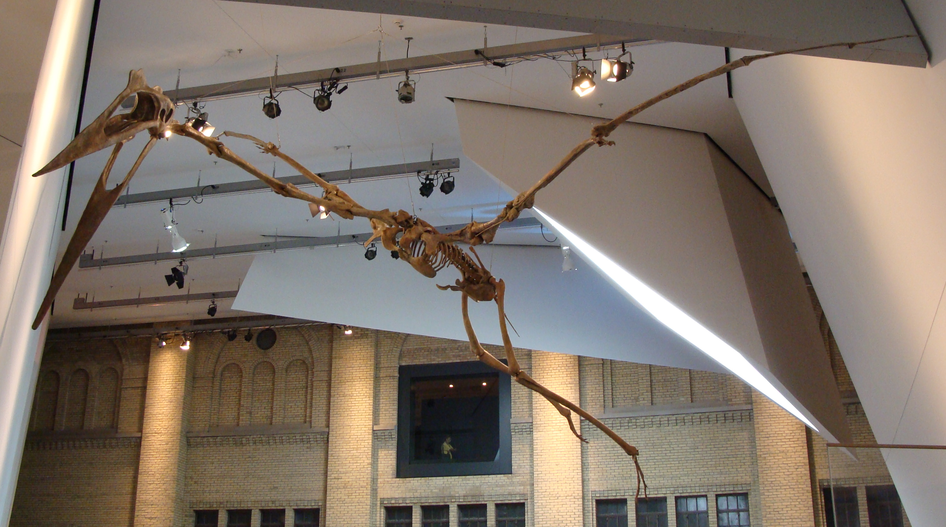 Quetzalcoatlus on display at the Royal Ontario Museum.